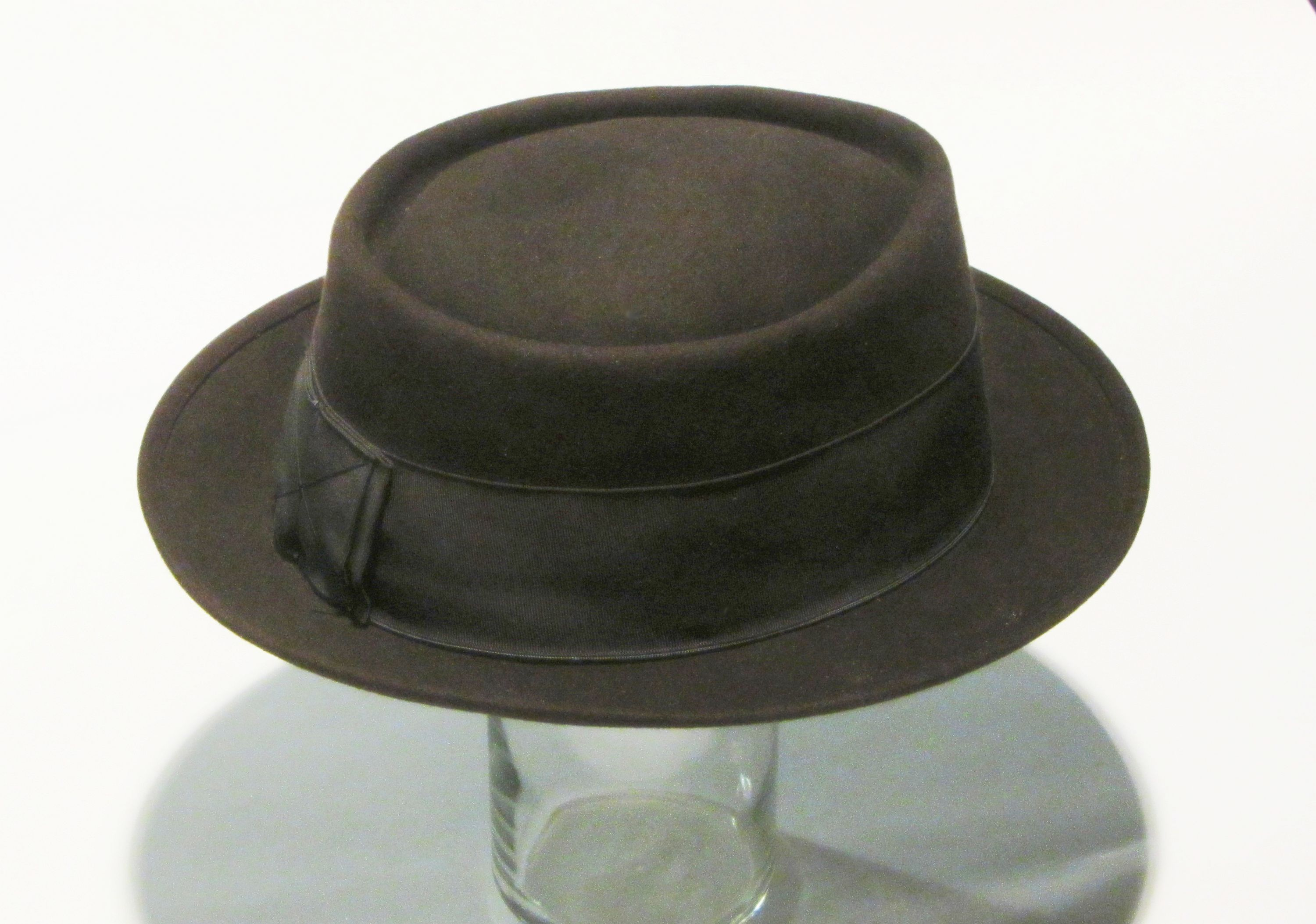 A classic men's pork pie hat from the 1940s. Construction: felt wool. Hatband: petersham ribbon. Leather sweatband on inside. Manufacturer: Bond. Note that the "bow" in the back of the hat conceals a small button on a string which winds around the hat: in windy weather the button would be attached to the lapel of a jacket to keep the hat from blowing away.